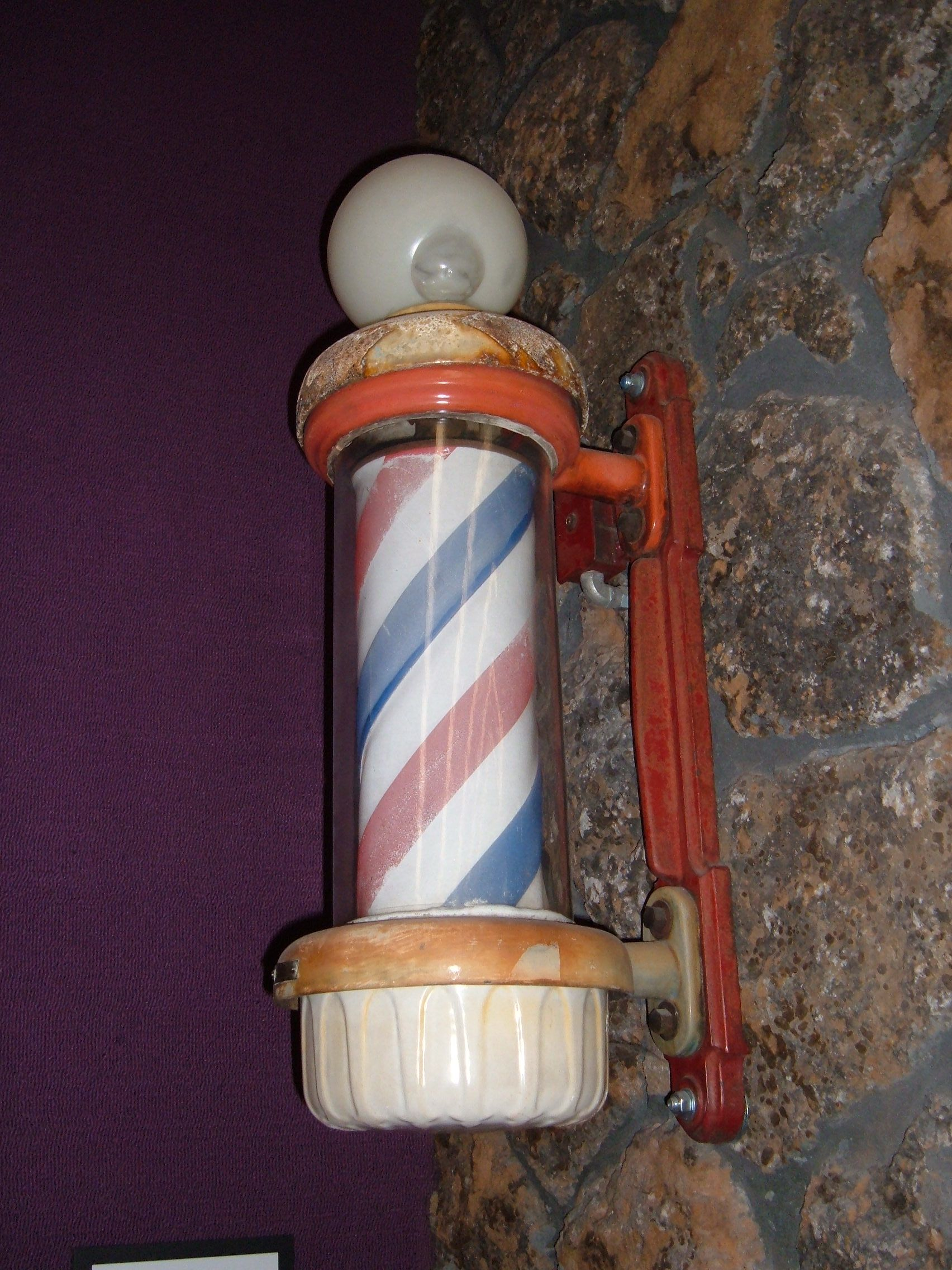 A barber's pole that hung outside the barber shop of Carl Schulz, father of Charles M. Schulz, near the corner of Snelling and Selby Avenues in St. Paul, Minnesota. It stayed there following Carl’s retirement in 1964. When Charles M. Schulz and his family visited the area in 1996, Charles M. Schulz’s daughter Jill came up with the idea to relocate the pole to Santa Rosa as a gift for her father and for visitors to the Redwood Empire Ice Arena. It is now located in Snoopy's Gallery and Gift Shop, which is adjacent to the arena.